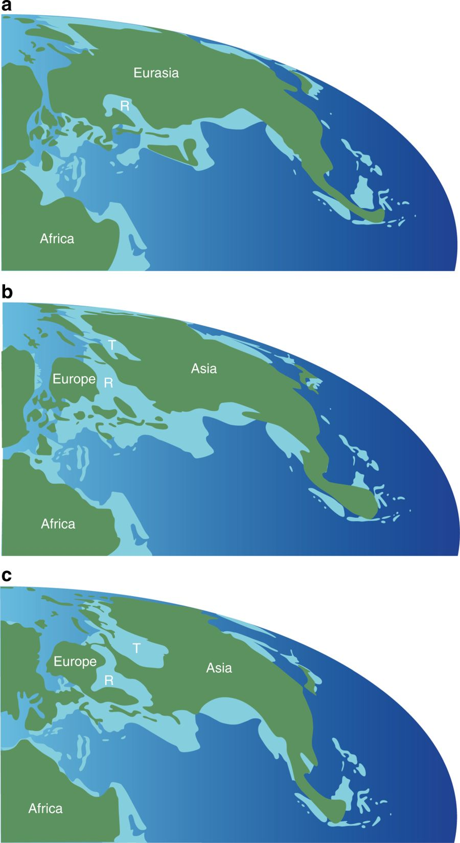 Paleogeographic maps showing the formation and disappearance of an epicontinental seaway between Europe and Central Asia during the Middle Jurassic through Early Cretaceous. a Middle Jurassic (170 Ma); b Late Jurassic (160 Ma); c Early Cretaceous (138 Ma). The maps are based on ref. 48. Green indicates land, light blue shallow sea, and deep blue ocean. Abbreviations: R, Russian Platform Sea; T, Turgai Sea